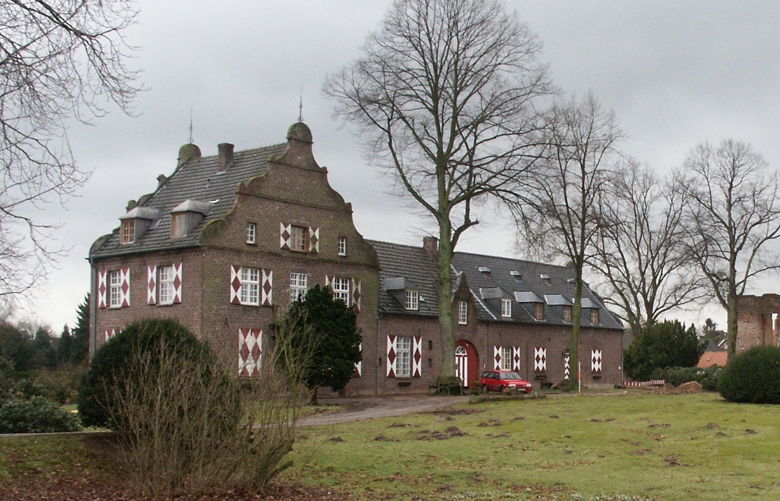 Haus Hertefeld in Weeze, Rentei